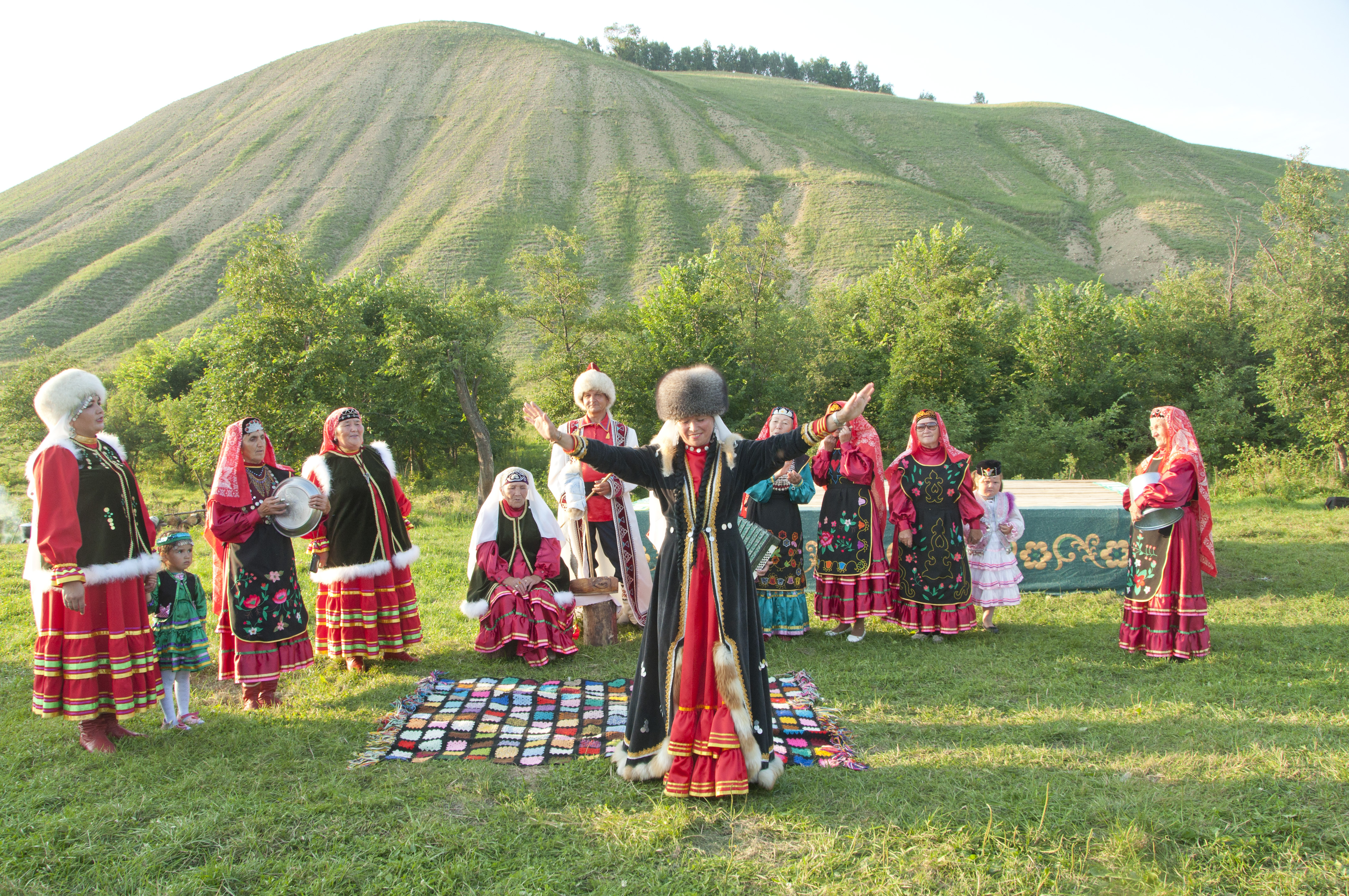 Bashkir dance in Yangan-Tau 2018